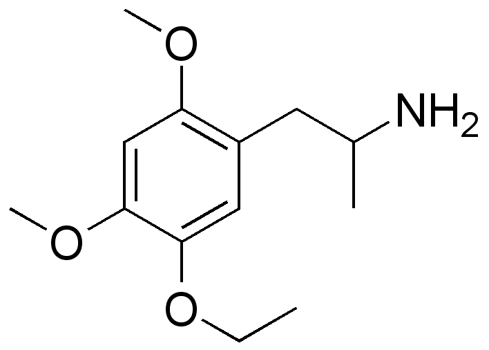 Chemical structure of MME, drawn in ChemDraw by User:Mark PEA.